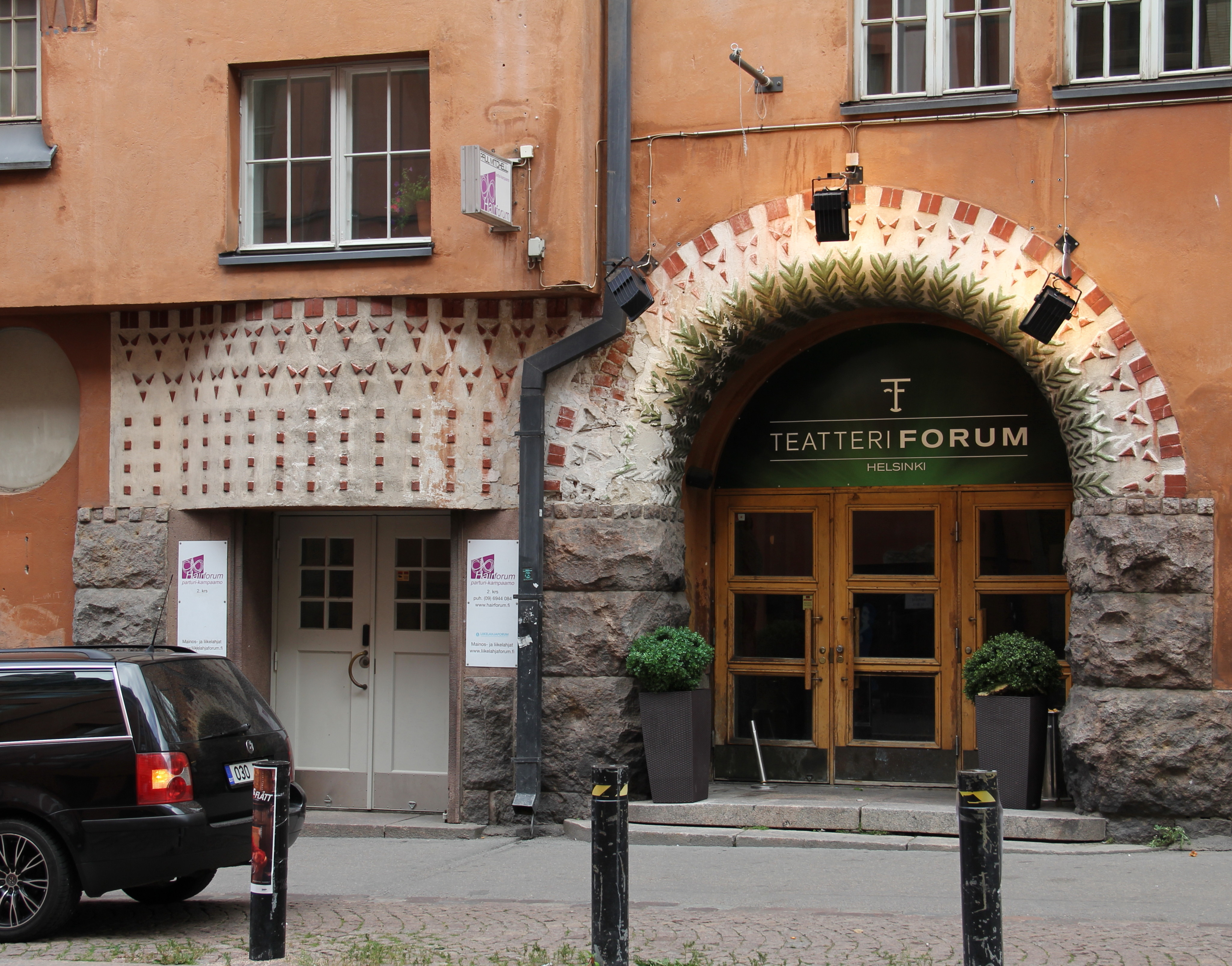 The Koitto Building, a former building of Temperance society Koitto, in the corner of Simonkatu and Yrjönkatu, Helsinki, Finland. Designed by architect Vilho Penttilä and completed in 1907. -Main entrance to ballroom and to stairway.